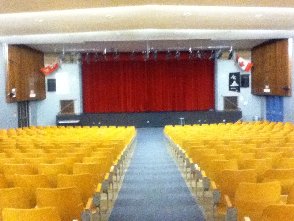 The West Hill Collegiate Auditorium (known as the Francis S. Jennings Auditorium).